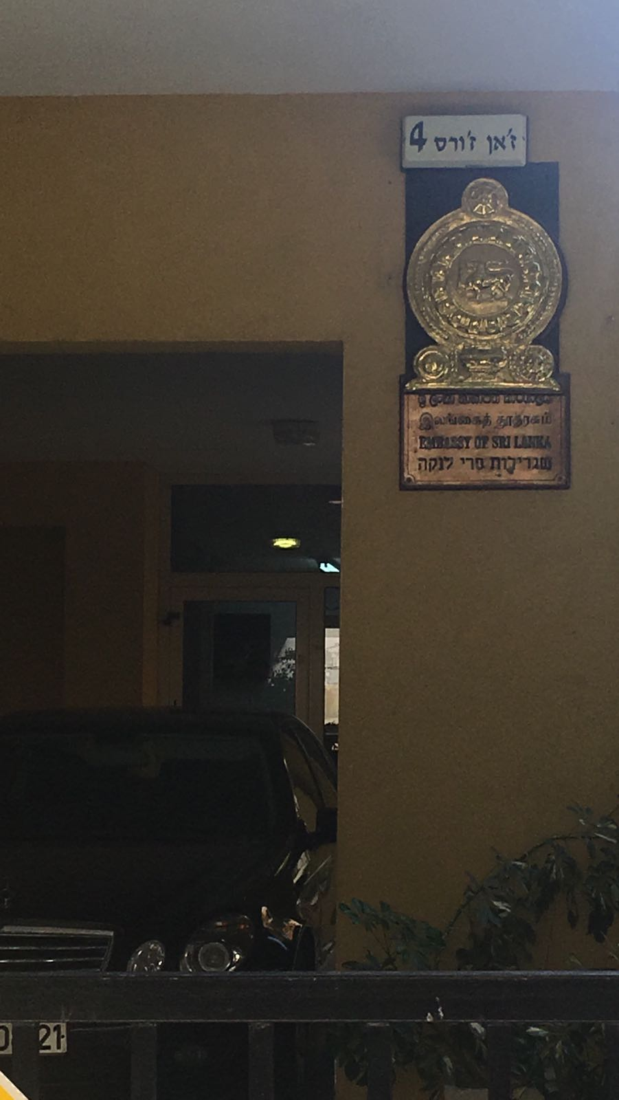 Embassy of Sri Lanka in Tel Aviv-yafo